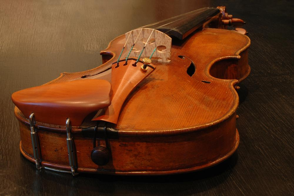 This violin is about 250 years old.